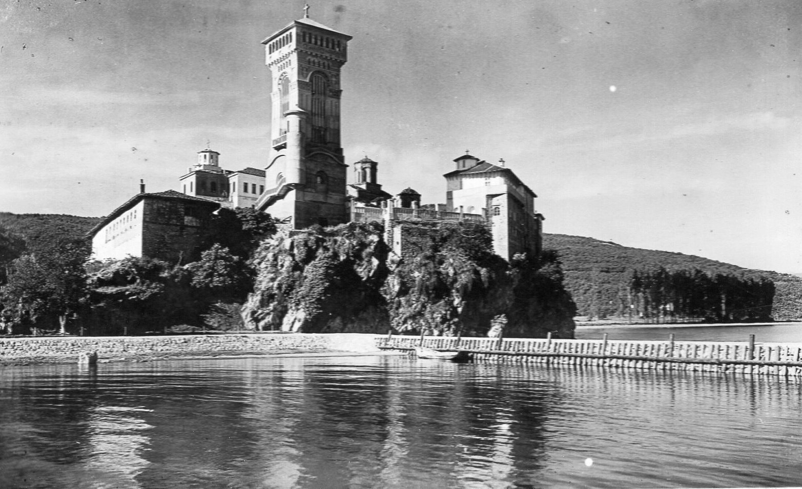 Postcard of Ohrid, Monastery of Saint Naum from 1934 This media file is produced by Wikipedian in Residence in Category:Wikipedian in Residence at DARM in 2016.